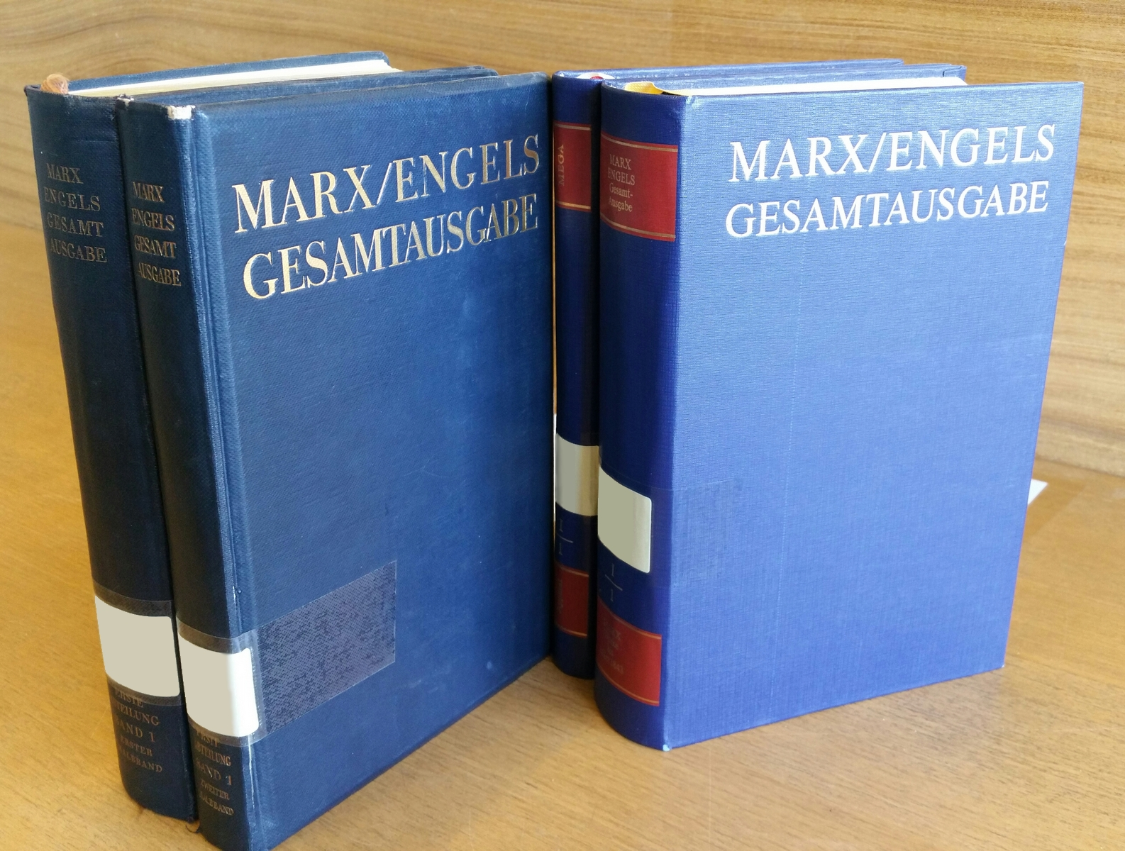 Volumes I/1 of the first and second Marx-Engels-Gesamtausgabe (MEGA) in comparison.